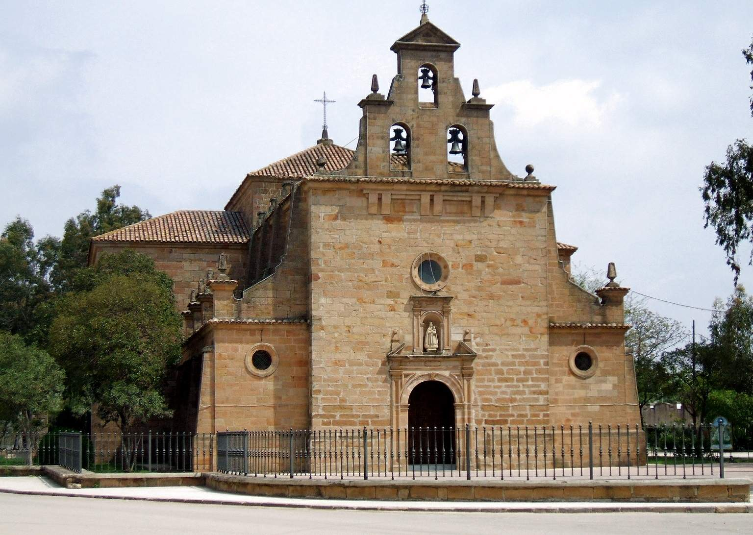 Santuario de Nuestra Señora de Linarejos, en Linares (Jaén, Andalucía, España)